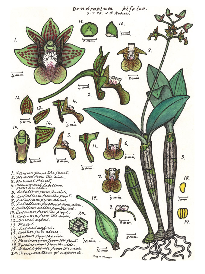 This image is one of a series by Lewis Roberts